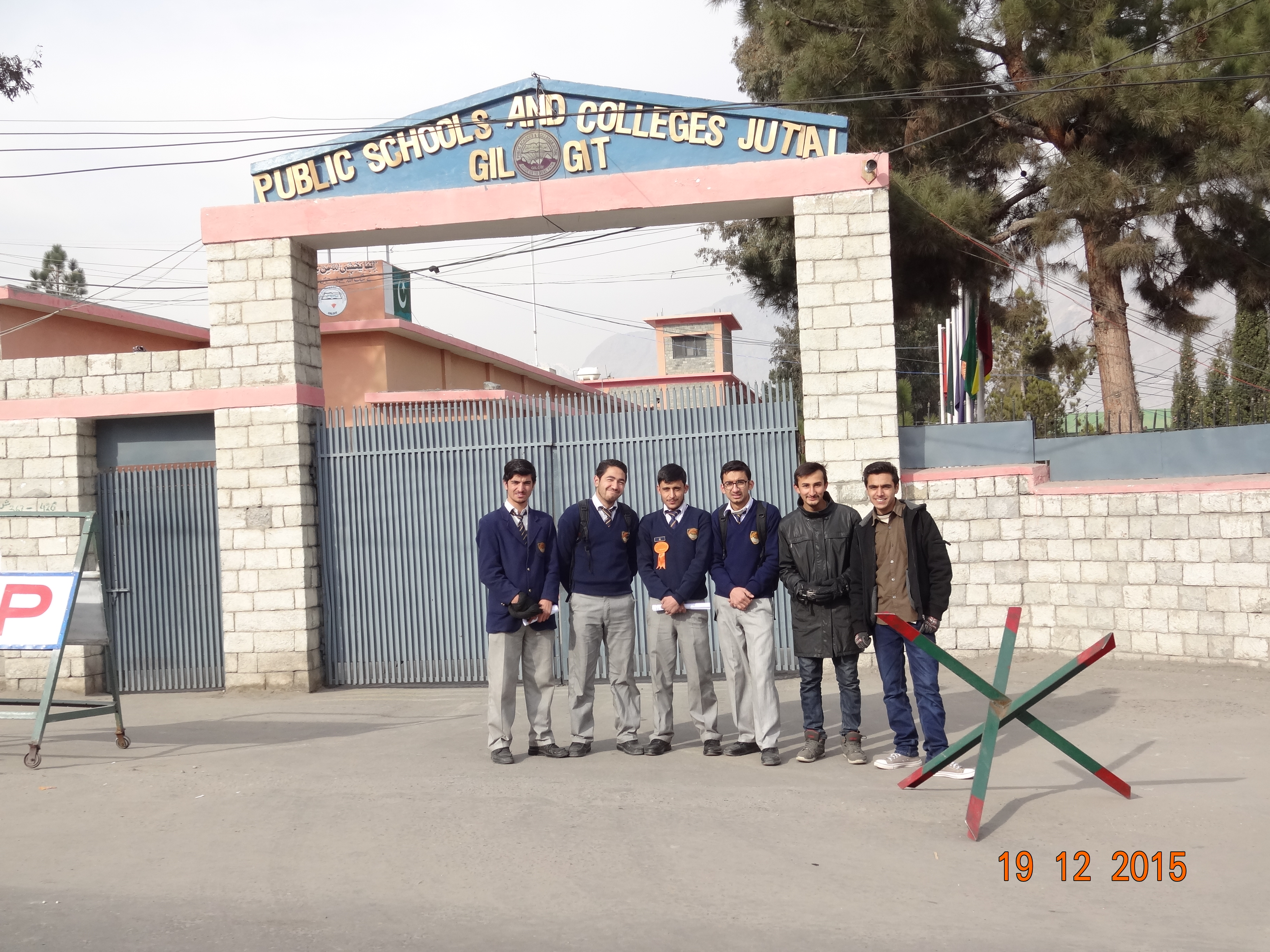 A picture of PSACJG Entrance gate with College Students.